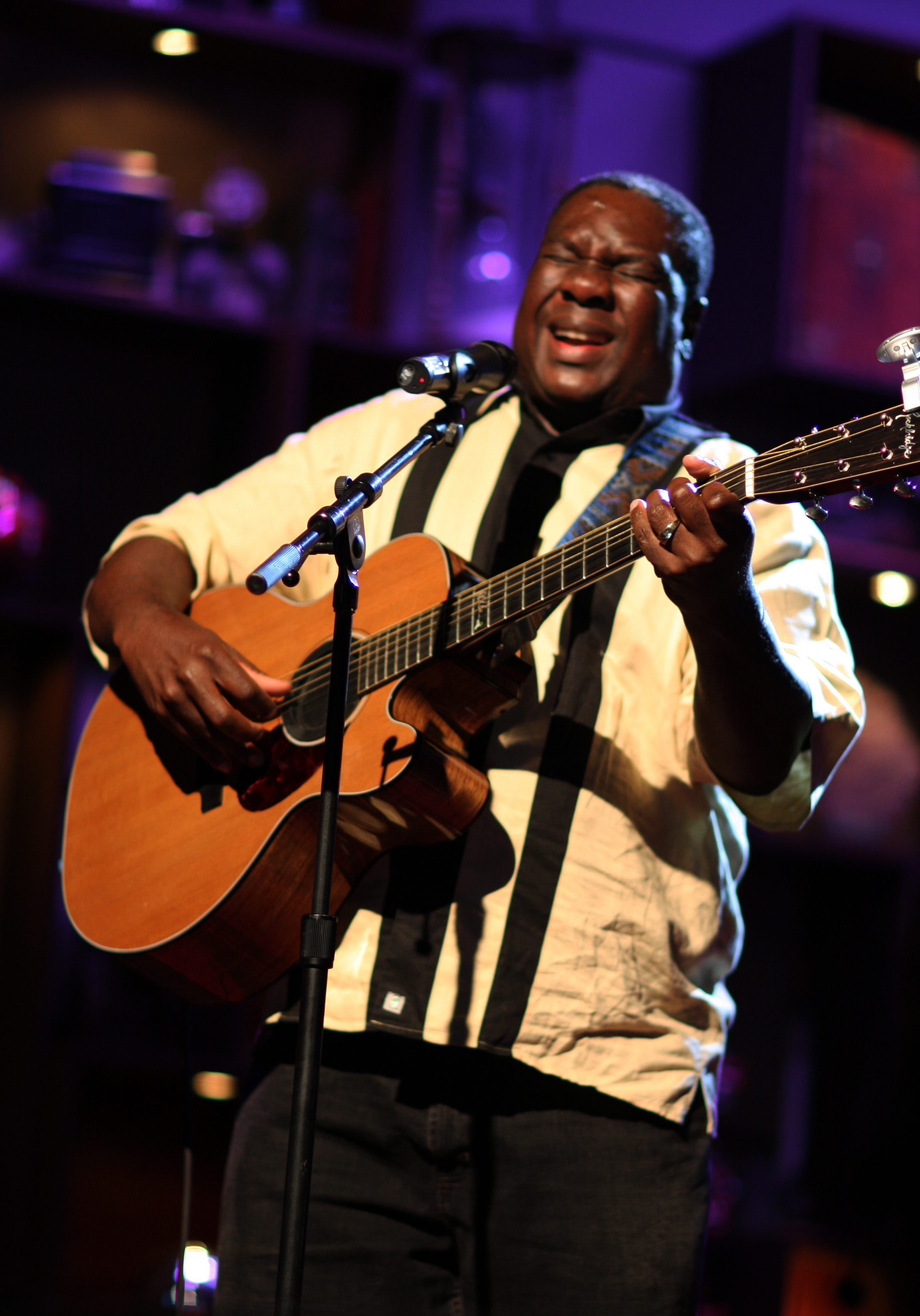 South African Anti-apartheid Poet and Song Writer Vusi Mahlasela